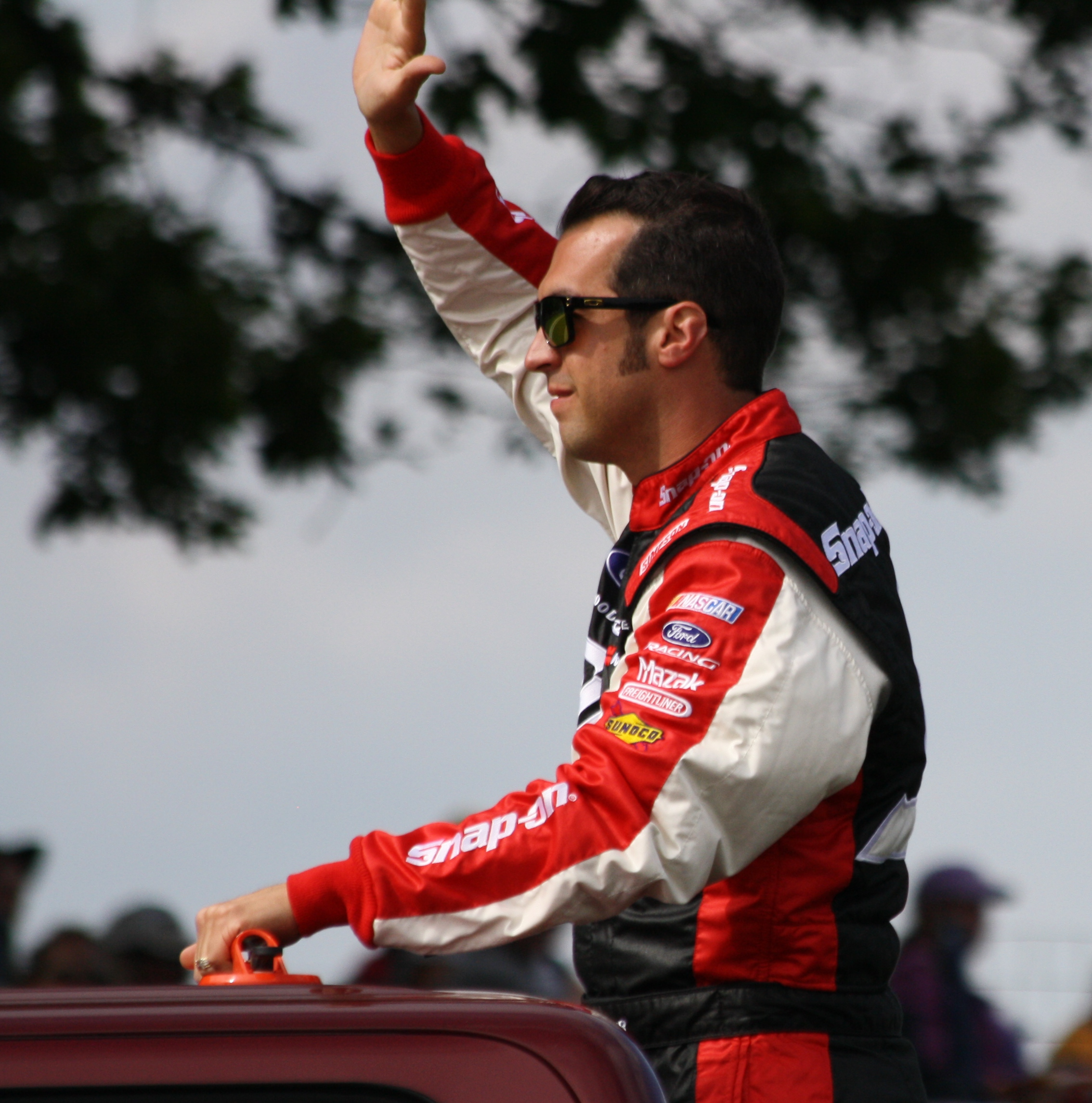 NASCAR driver Sam Hornish, Jr. waving to fans at Road America before the start of the 2013 Johnsonville Sausage 200